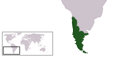 Map of the occupied and claimed territories of the Captaincy General of Chile, according to Chilean historiography. IMPORTANT NOTE: Patagonian territories were never an effective part of the Captaincy, and according to 1570 Royal Decree the rights on the Eastern Patagonia belonged to the Rio de la Plata Province (Viceroyalty of Peru, later Viceroyalty of the Rio de la Plata), a situation not considered in Chilean historiography.